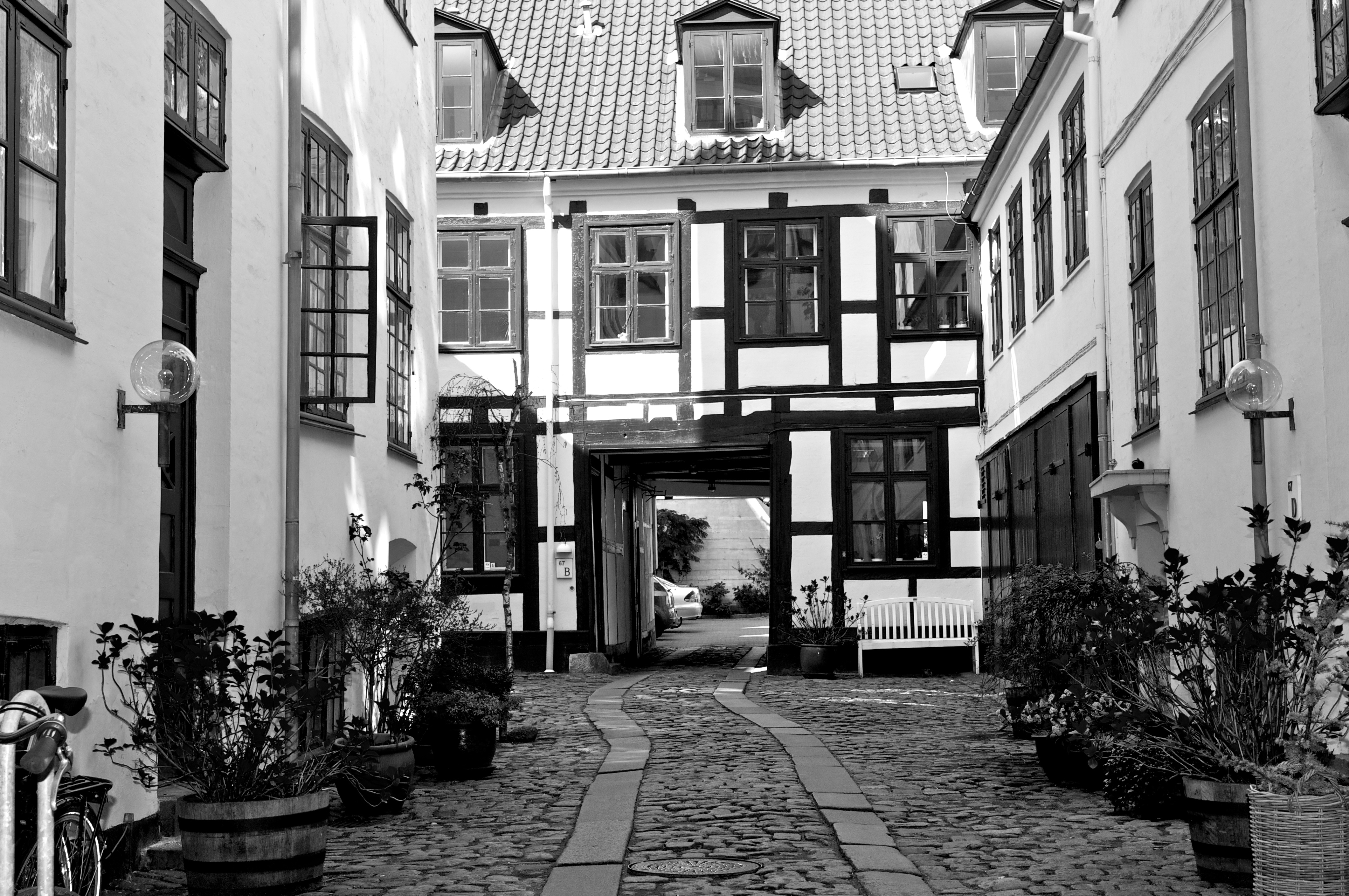 Fabritius Tengnagel og Heines gårdsplads